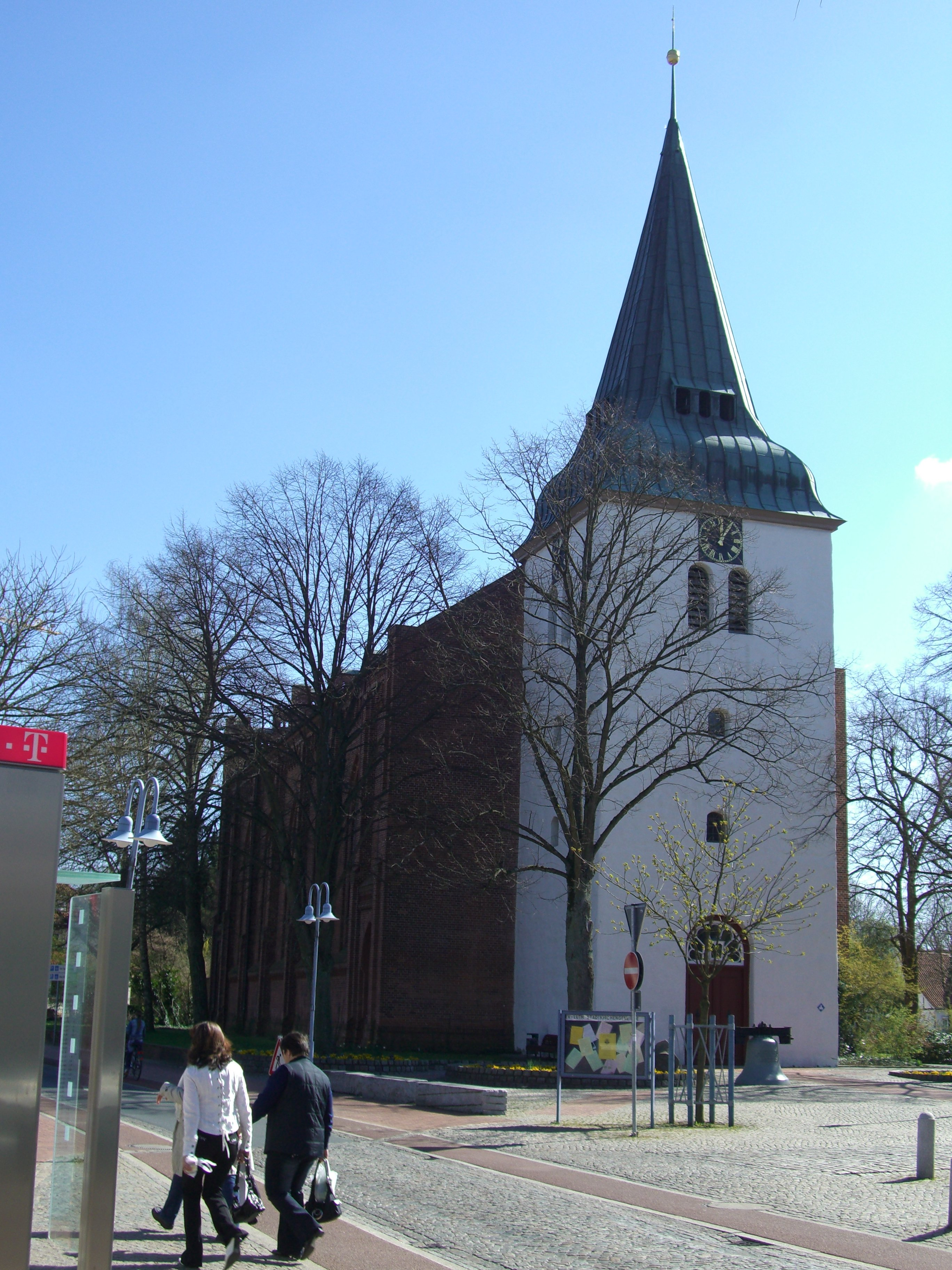 town of Rotenburg, Germany: town church